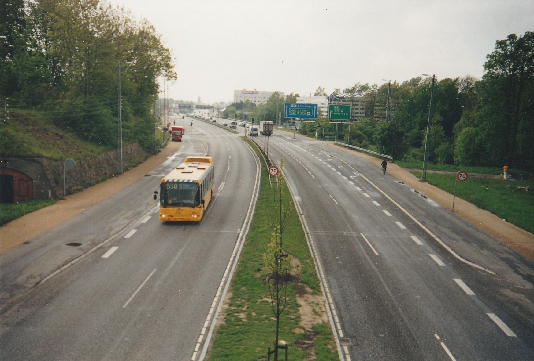 HT bus line 550S on Roskildevej at Vestvolden in Copenhagen.